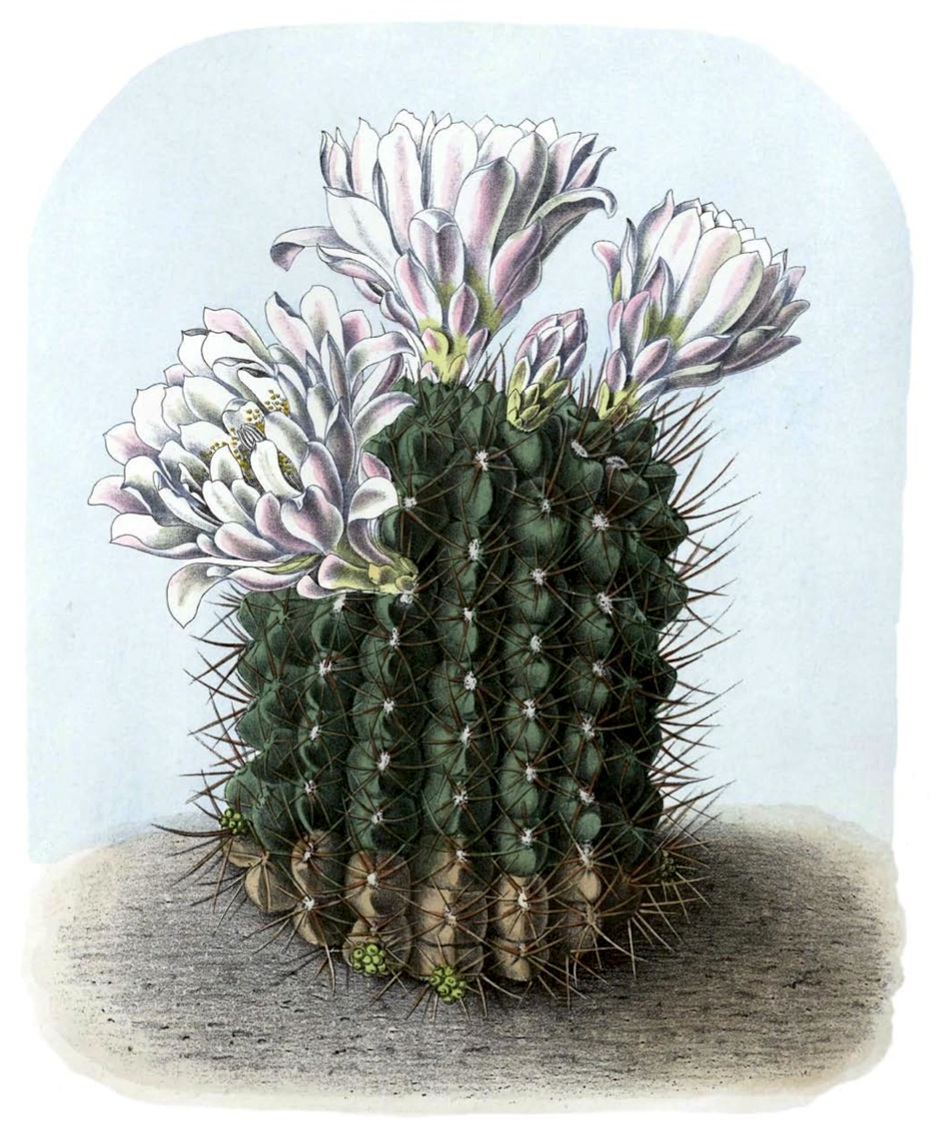 Gymnocalycium gibbosum